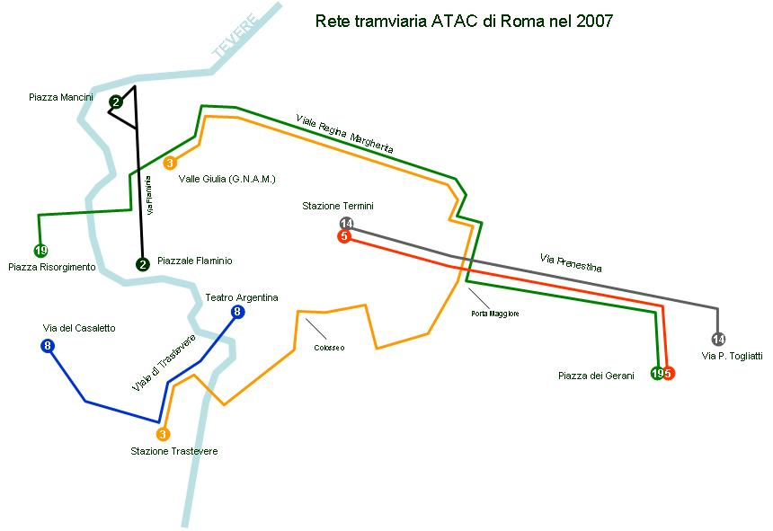 Schematic map of Rome's tram system as of 2007